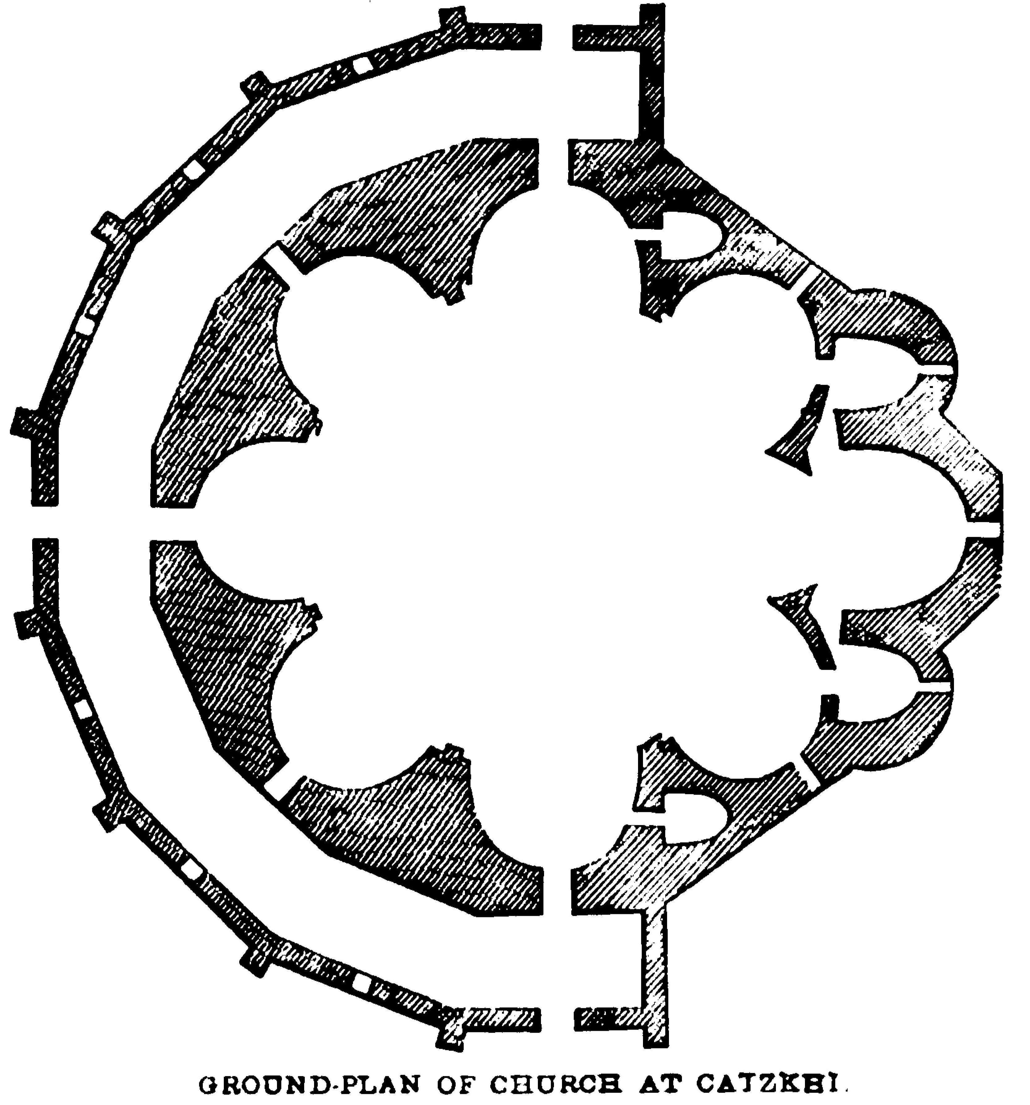 Ground-Plan of the Church at Catzkhi, Mingrelia. The church of Catzkhi, in Mingrelia, is of very remarkable plan. Outside it presents a circular tower with conical head, and lighted by twelve windows; this is surrounded by a second circular stage, so to speak, arcaded by twisted shafts, supporting flat segmental arches; in each is a circular-headed light, richly worked. The lowest stage is arcaded in the same way, though between the light and the segmental head intervenes a flat straight-sided arch, with voluted mouldings. The extreme length of this church is 67, its extreme breadth 7l feet; there are two very small parecclesia. It is probable, from certain mannerisms, that this church had the same architect as Nikortsminda. An inscription remains, "O Trinity, have mercy on Djikoua Jadzi, superior of this church."